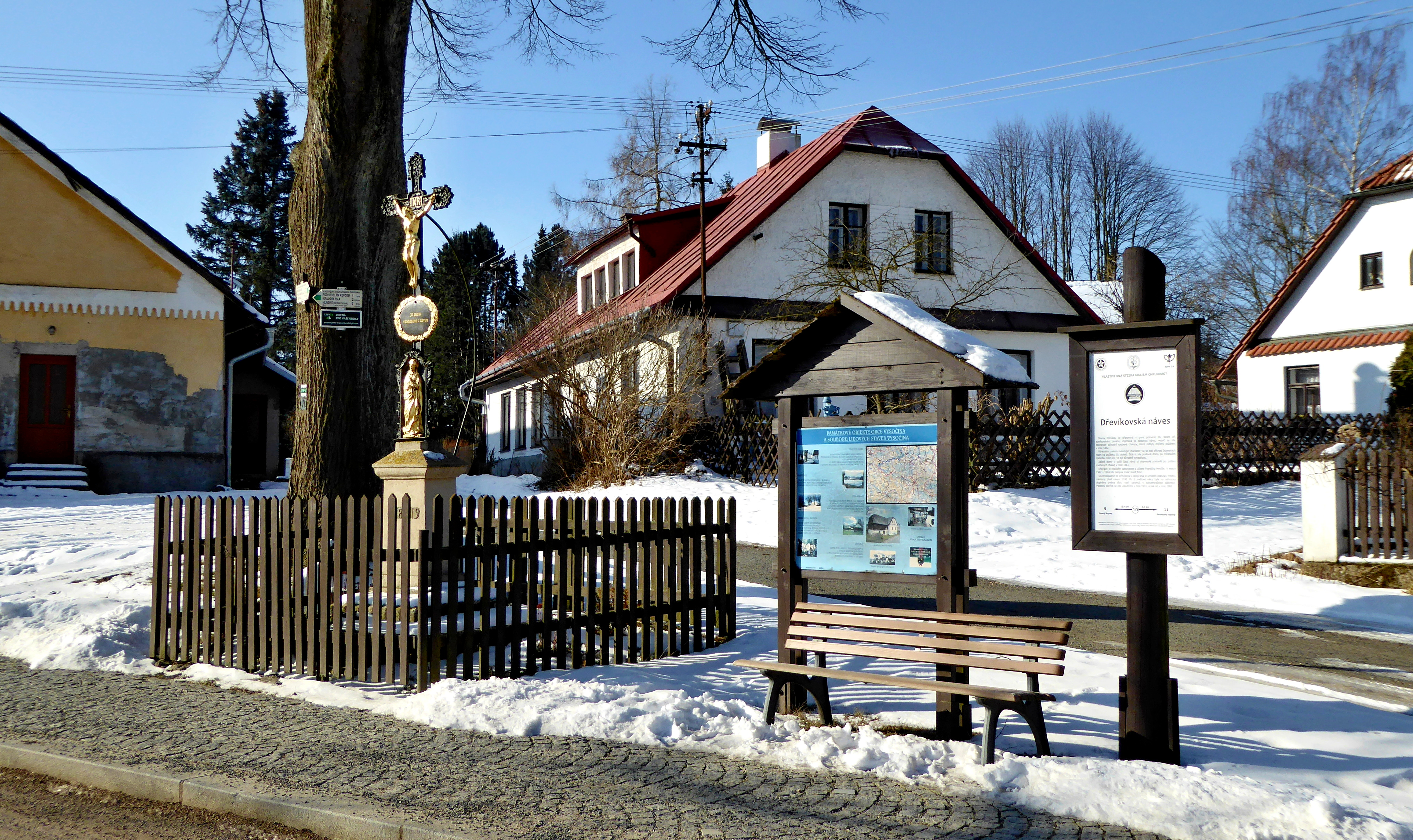 "Dřevíkovská" village green. Below the tree (linden) the sacred structure of God's torment from 1869 and also information boards of the homeland trail the Landscape of the Chrudimka River (point number 10). On the tree is signpost of green marked tourist routes of the Czech Tourists Club (section of trail: hamlets Veselý Kopec – Dřevíkov – Svobodné Hamry).Photo location: Czechia, Pardubice Region, municipality Vysočina, hamlet of "Dřevíkov", "Stružinecká" knoll hill.